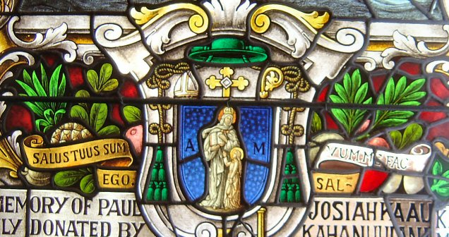 Episcopal crest of Msgr. Ropert, Vicar Apostolic of the Hawaiian Islands, in a window in the Cathedral of Our Lady of Peace, Honolulu.. Pic taken and uploaded by User: Aloysius Patacsil.